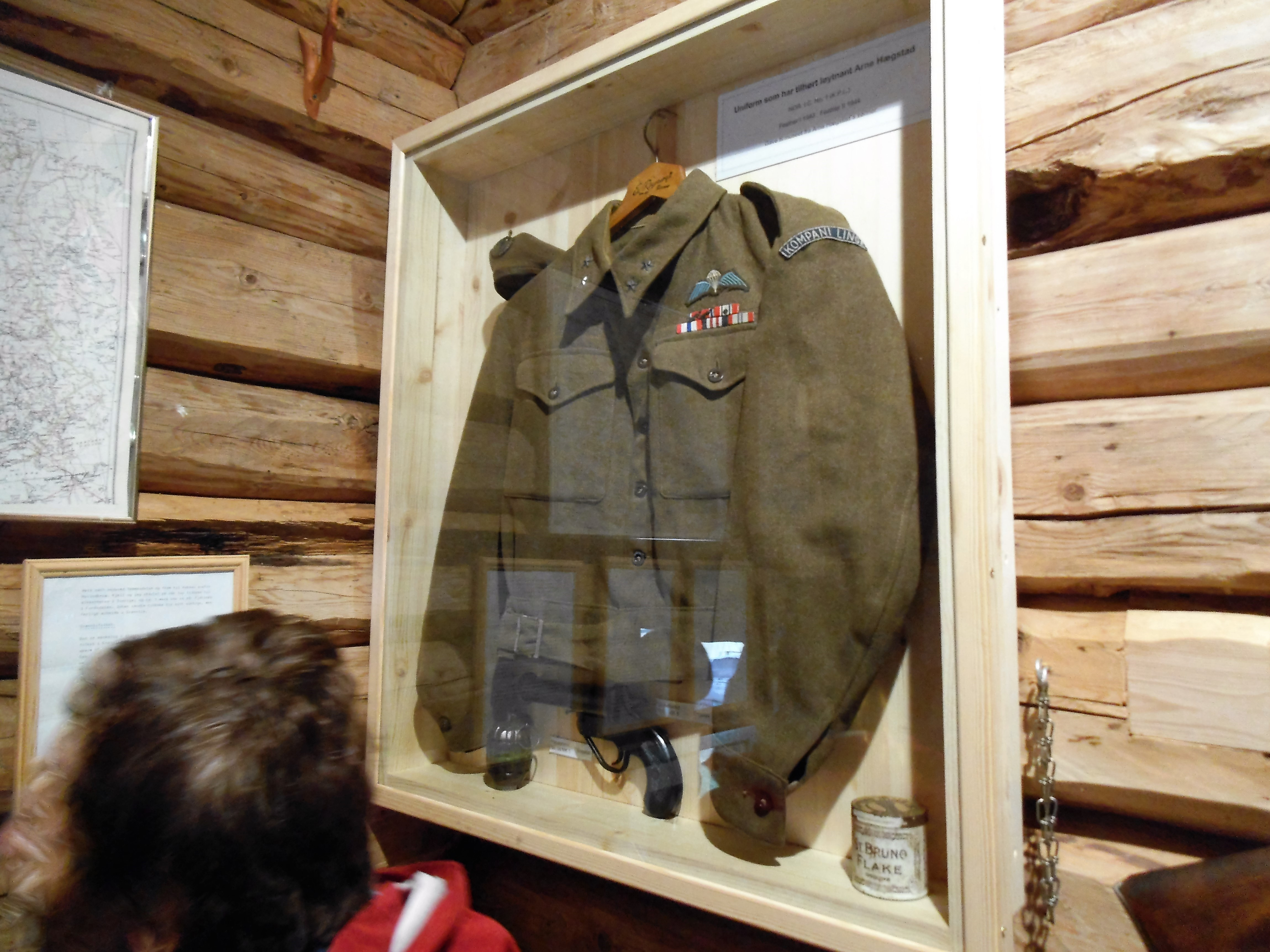 Sabotørmuseet på Grønlia gård på Gåsbakken. Museet er tilknyttet Hotell Norge og ble etablert i 2003. På bildet sees en autentisk uniform som tilhørte sabotør Arne Hegstad.